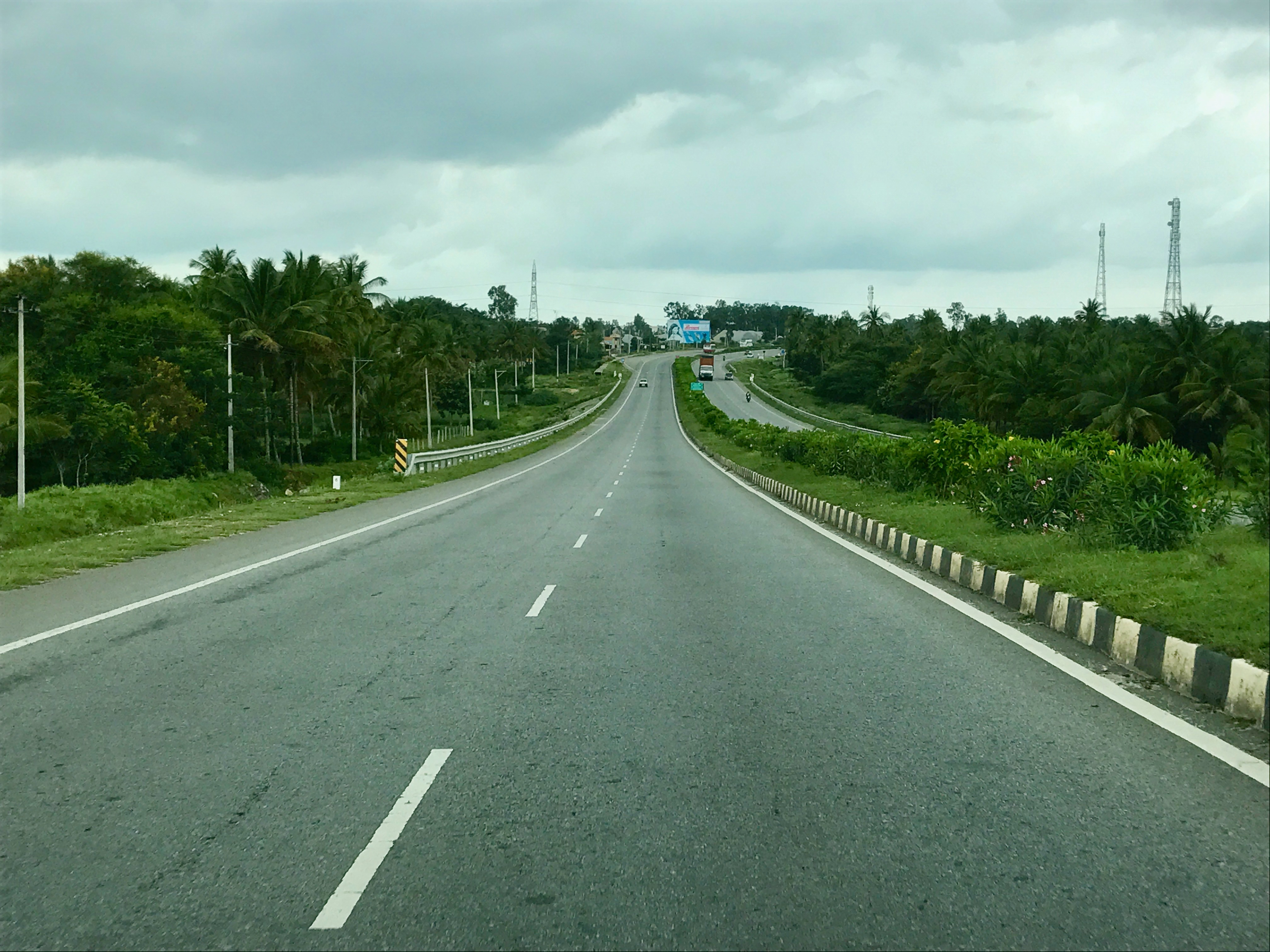 The roads and highways network of India. This highway is now known as NH 75 in new numbering system.